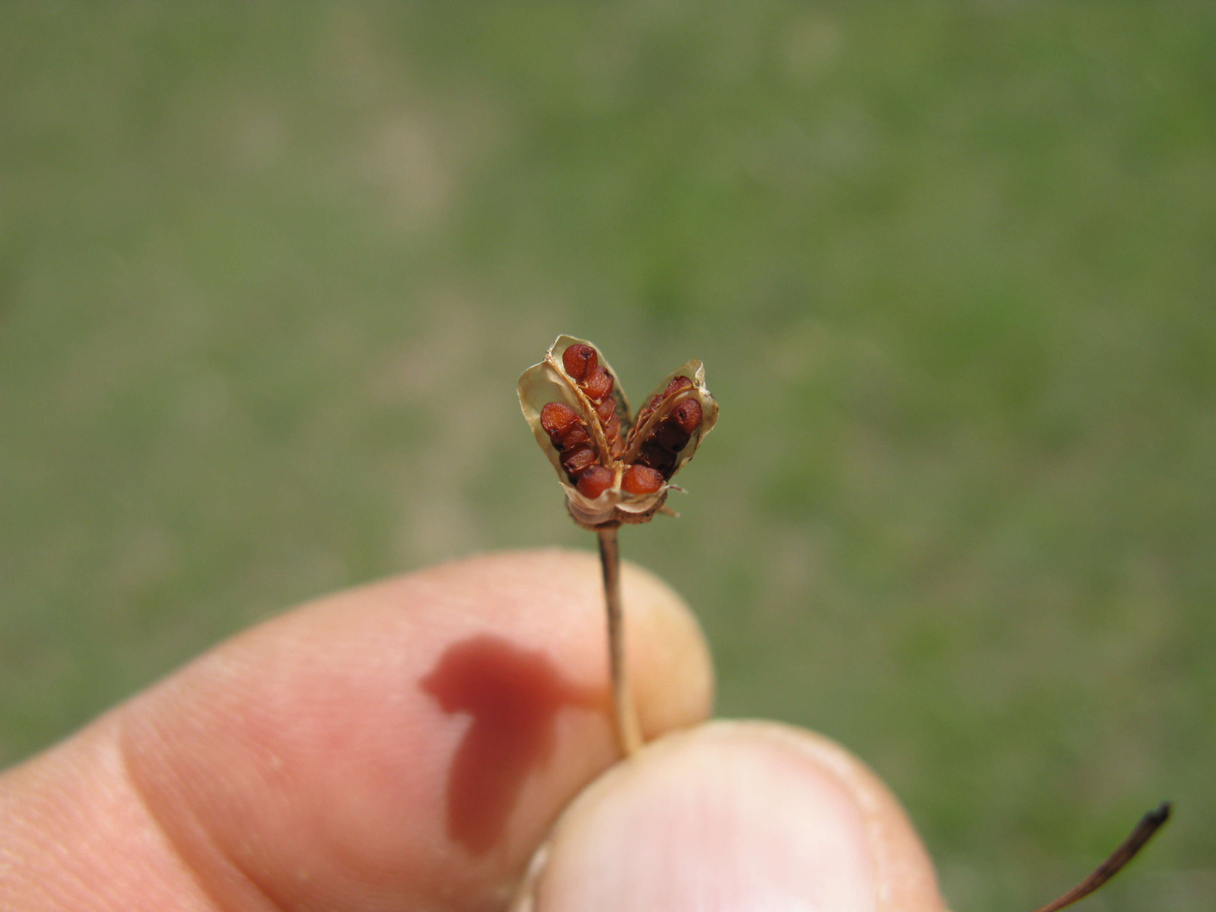 Introduced, cool season, perennial,small herb with a globose corm, no aerial stem and annual aerial leaves and flowers. Leaves several, basal, 8–40 cm long, 1–2.5 mm wide, compressed, grooved and tough. Flowers are solitary. Perianth tubes formed from 6 tepals are 2–4 mm long and yellow; lobes are 10–18 mm long and pale to bright pink, rarely white; outer tepals are dark-striped or greenish outside. Stigmas are exceeded by anthers. Capsules are cylindrical, about 1 cm long, on decurved scapes that straighten at maturity. Flowering is in late winter and spring. A native of South Africa, it is a common weed of pastures, lawns and roadsides